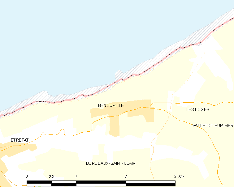 Map of French municipality Bénouville